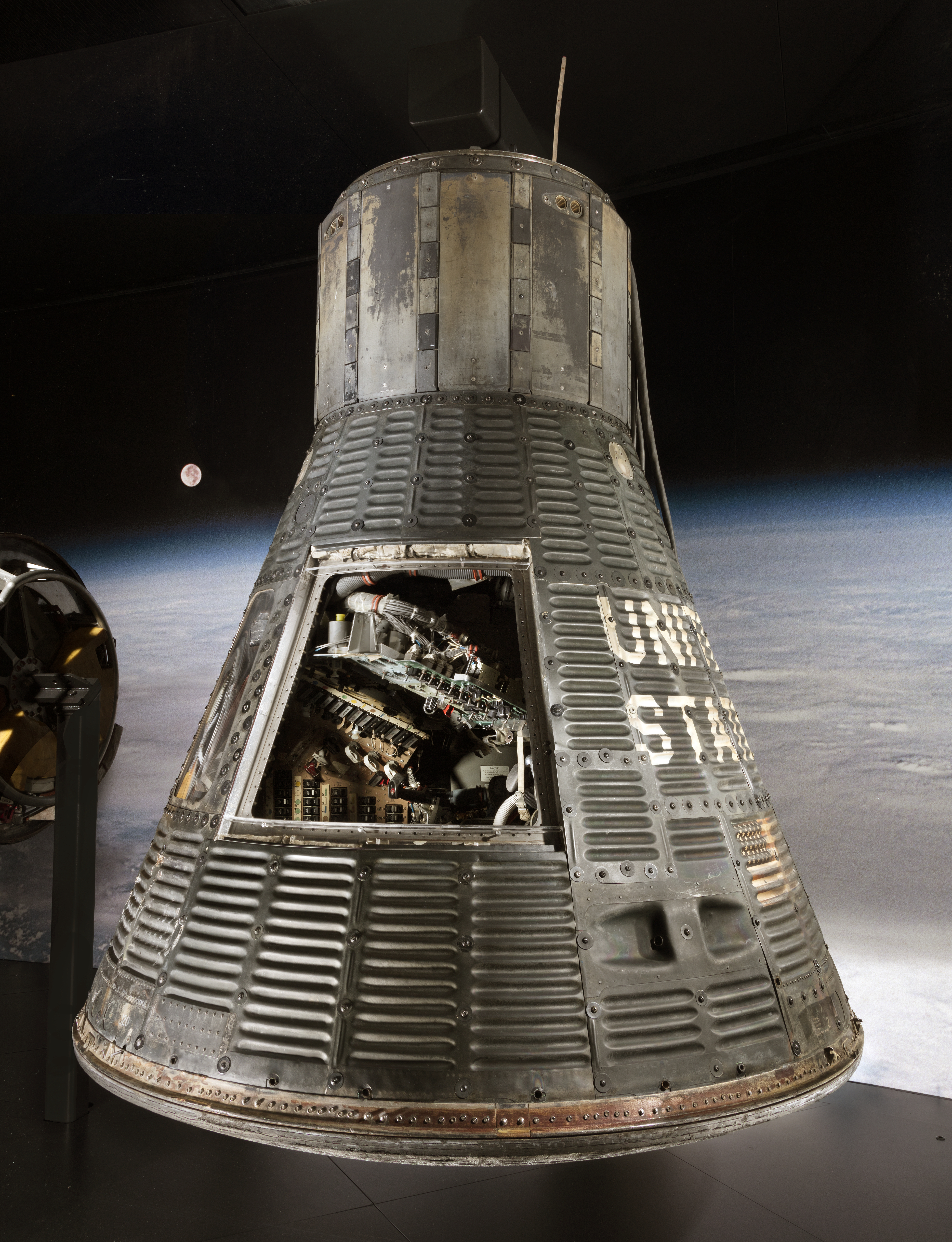 Mercury Capsule, MA-6, Friendship 7 (A19670176000) on exhibit in Milestones of Flight Hall (Gallery 100), Smithsonian National Air and Space Museum, Washington, DC. June 17, 2016. Photo by Eric Long. [3T8A3715][NASM2016-02692]